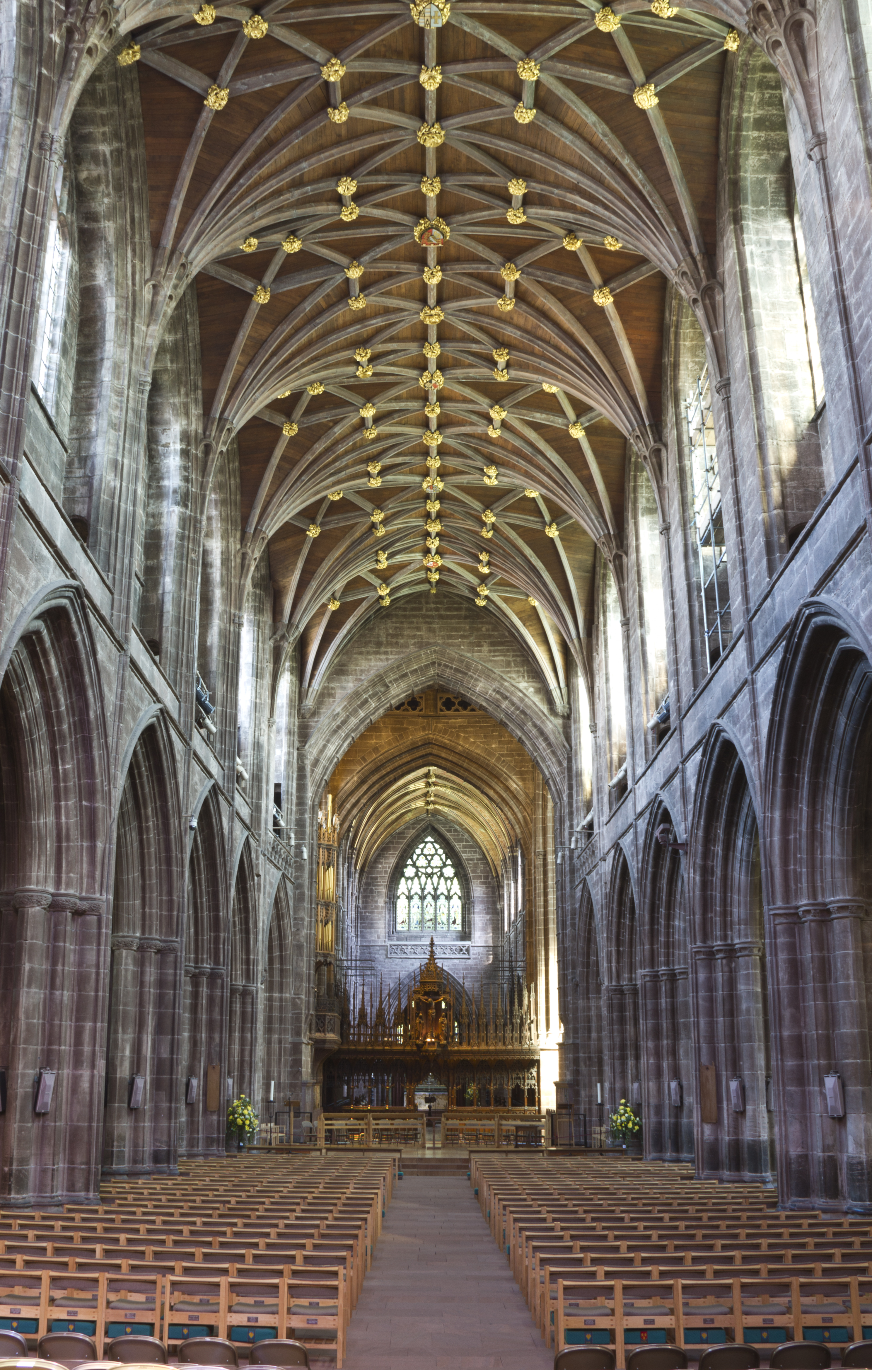 Chester Cathedral. Located in Chester, Cheshire, England, UK.